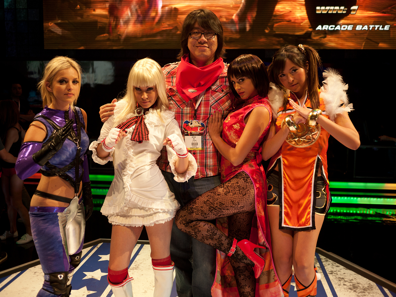 Models dressed up as Nina, Lili, Anna and Ling Xiaoyu at the E3 2012